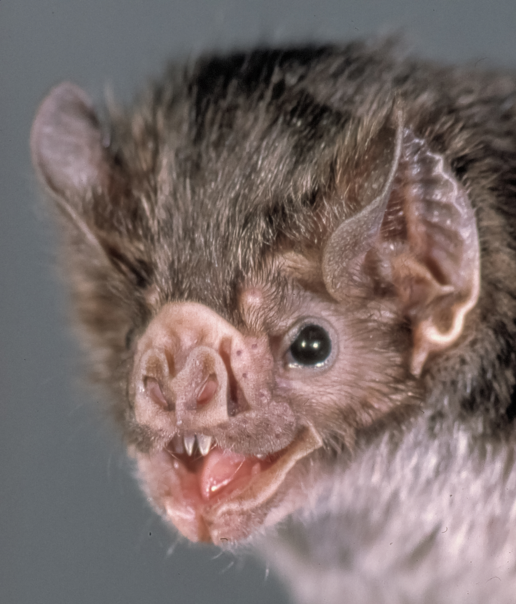 Common Vampire Bat (Desmodus rotundus)